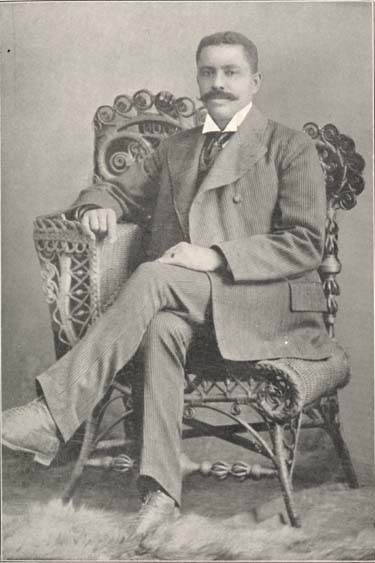 From John Merrick. A Biographical Sketch by R. McCants Andrews [Durham, N.C.: Press of the Seeman Printery, 1920]